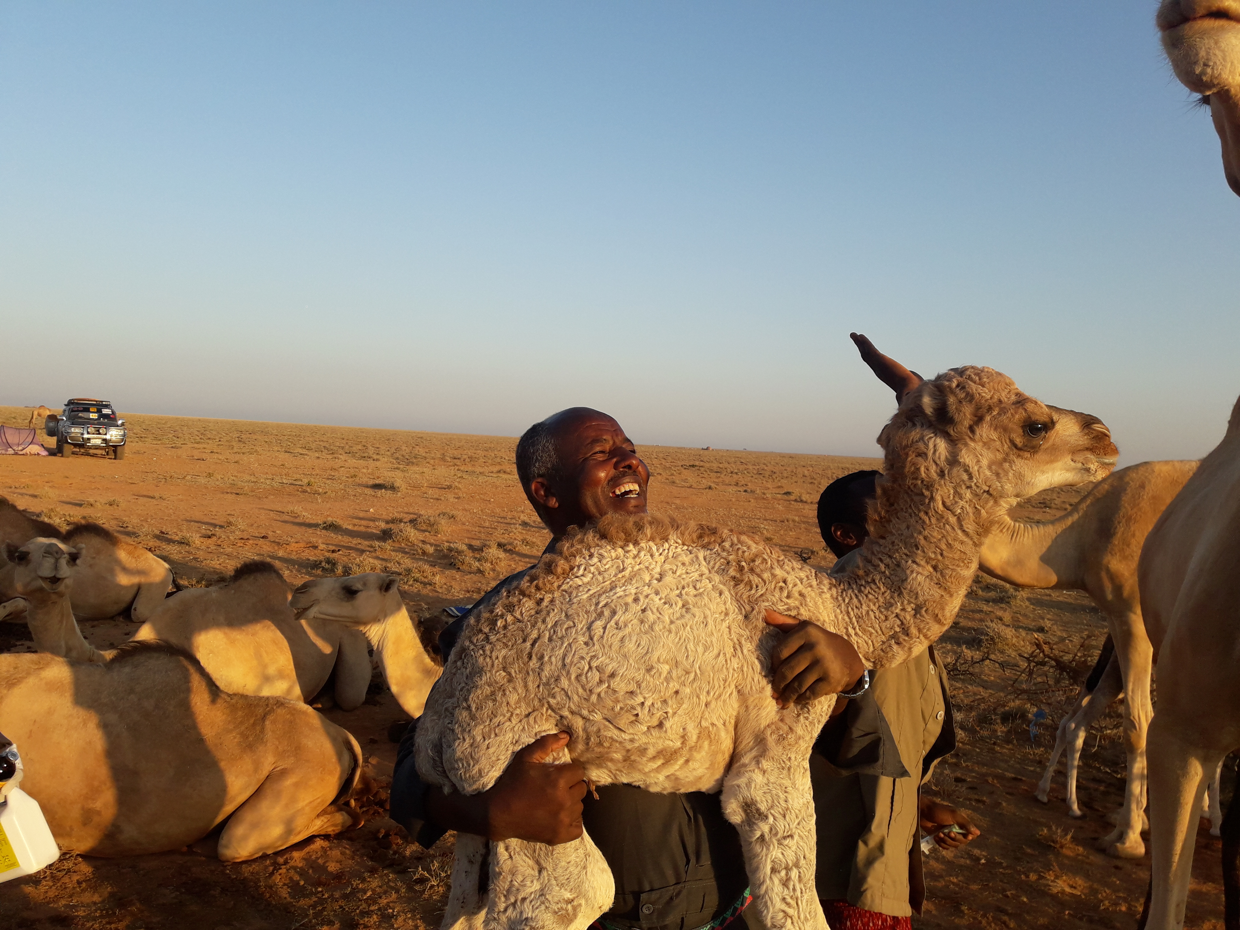 Veterinary technician named Ahmed Osman Muruqlaqe participating livestock treatment and vaccination campaign lifting camel calf in the rural of Xudun district, Sool region, Somalia This is an image with the theme "Play" from: Somalia